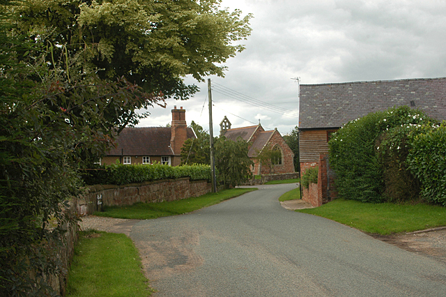 Lee Brockhurst, near to Lee Brockhurst, Shropshire, Great Britain.